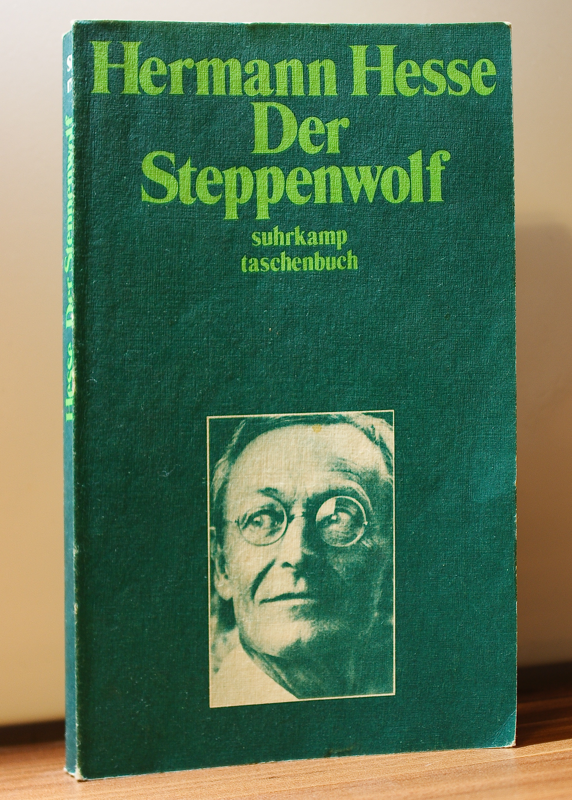 Der Steppenwolf by Hermann Hesse (publ. 1955 ; book 1974)